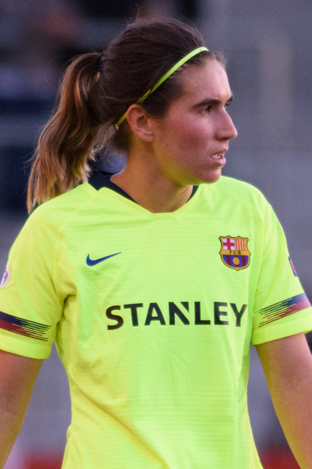 Mariona Caldentey during the Champions League match vs Fc Bayern München